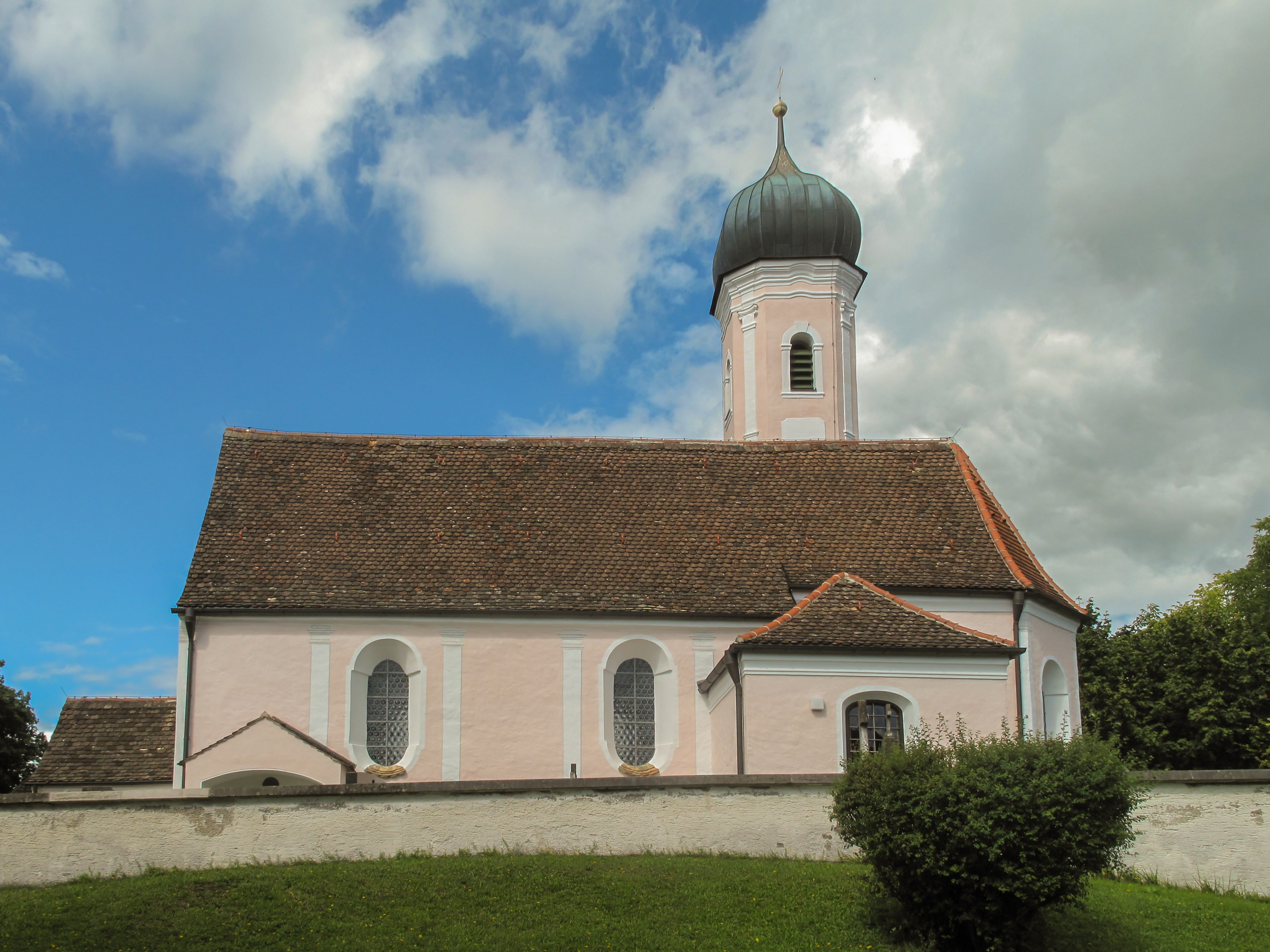 Deutenhausen, church: die Sankt Johann Kirche